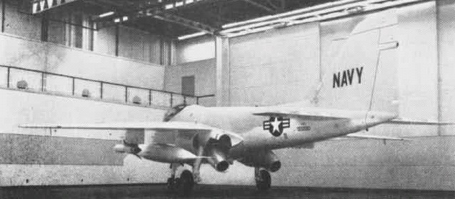 One of eight Grumman YA2F-1 Intruder prototypes, showing the original tiltable tailpipes. The first flight was on 19 April 1960. The aircraft was redesignated A-6 in 1962.